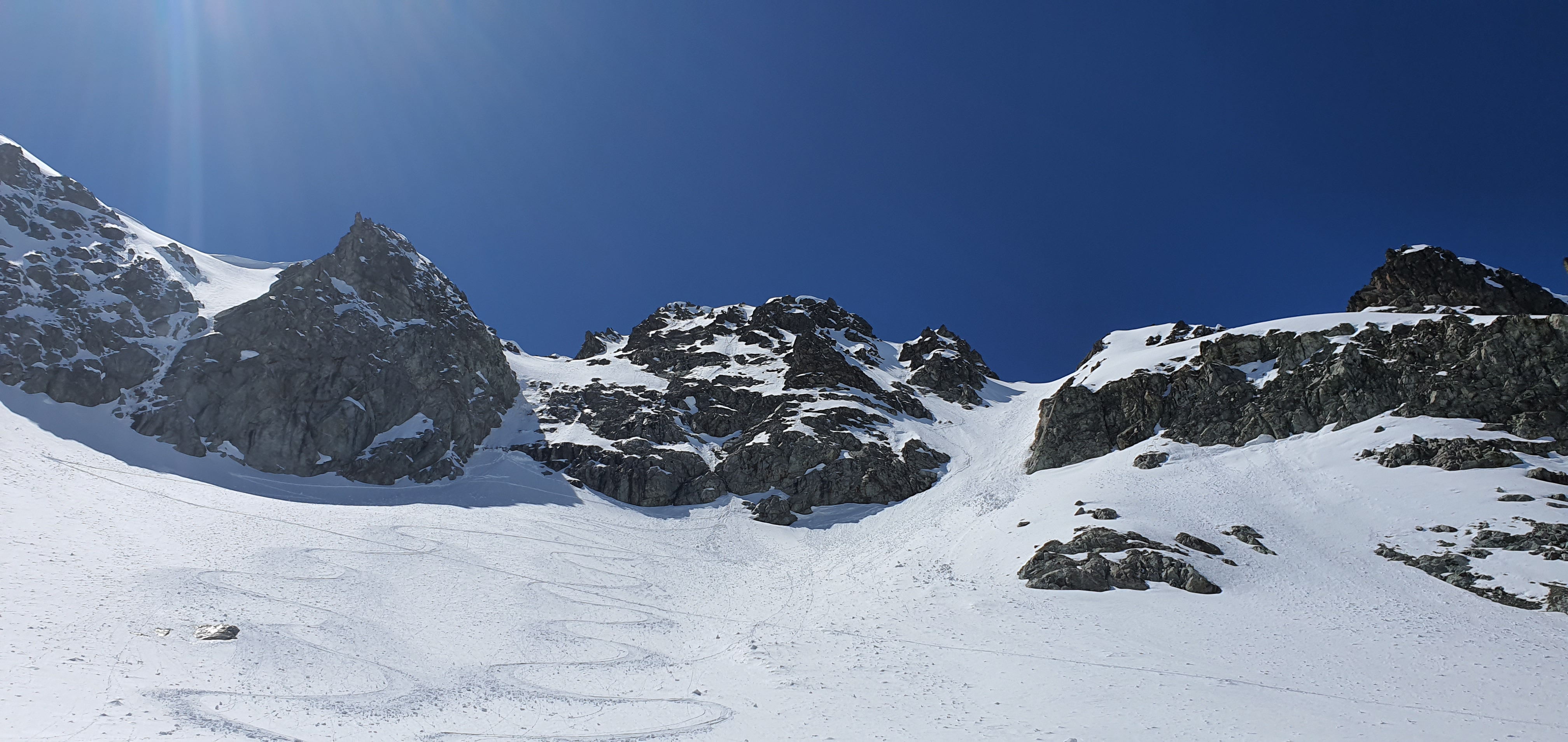 Summit area of La Piramida from north-east (Samedan / Bergün Filisur, Grison, Switzerland)